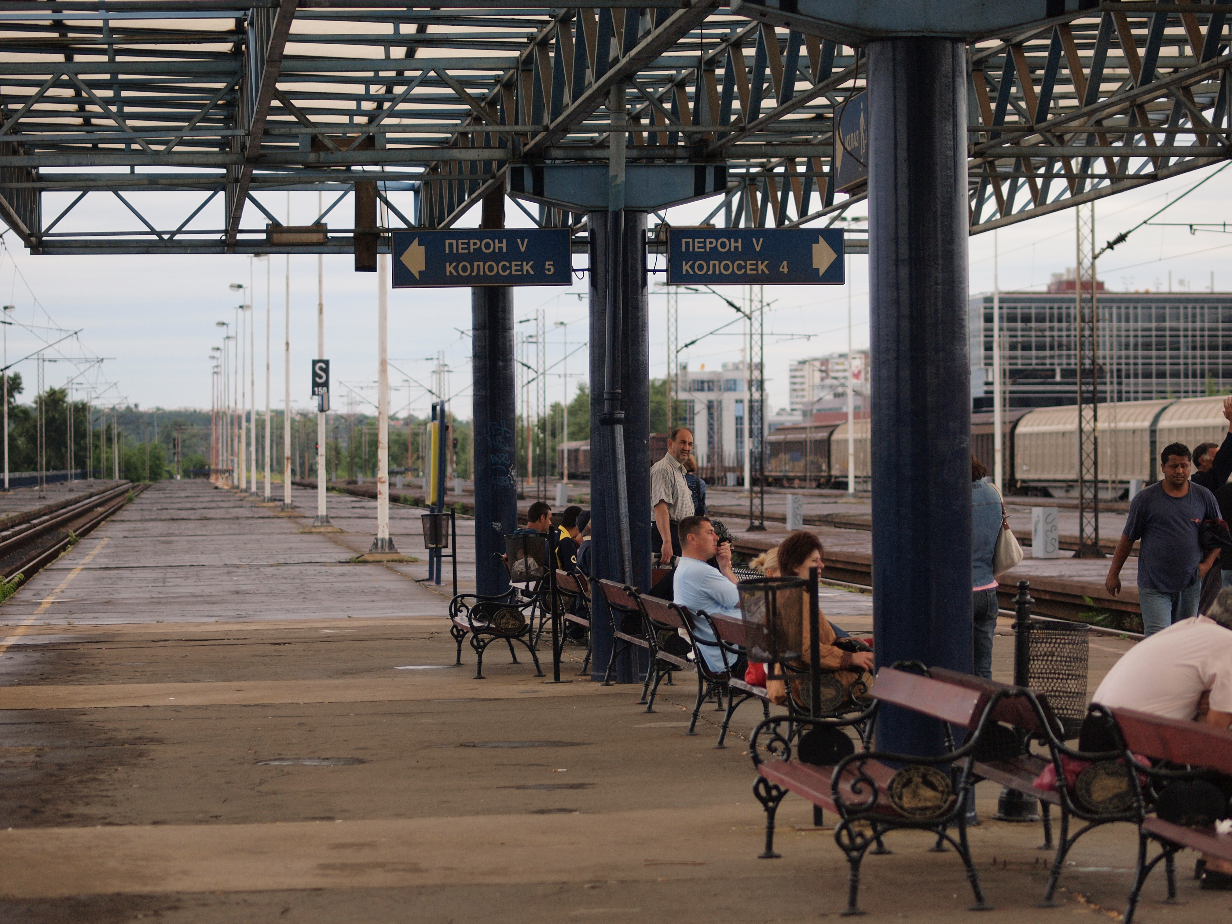 Novi Beograd railway station